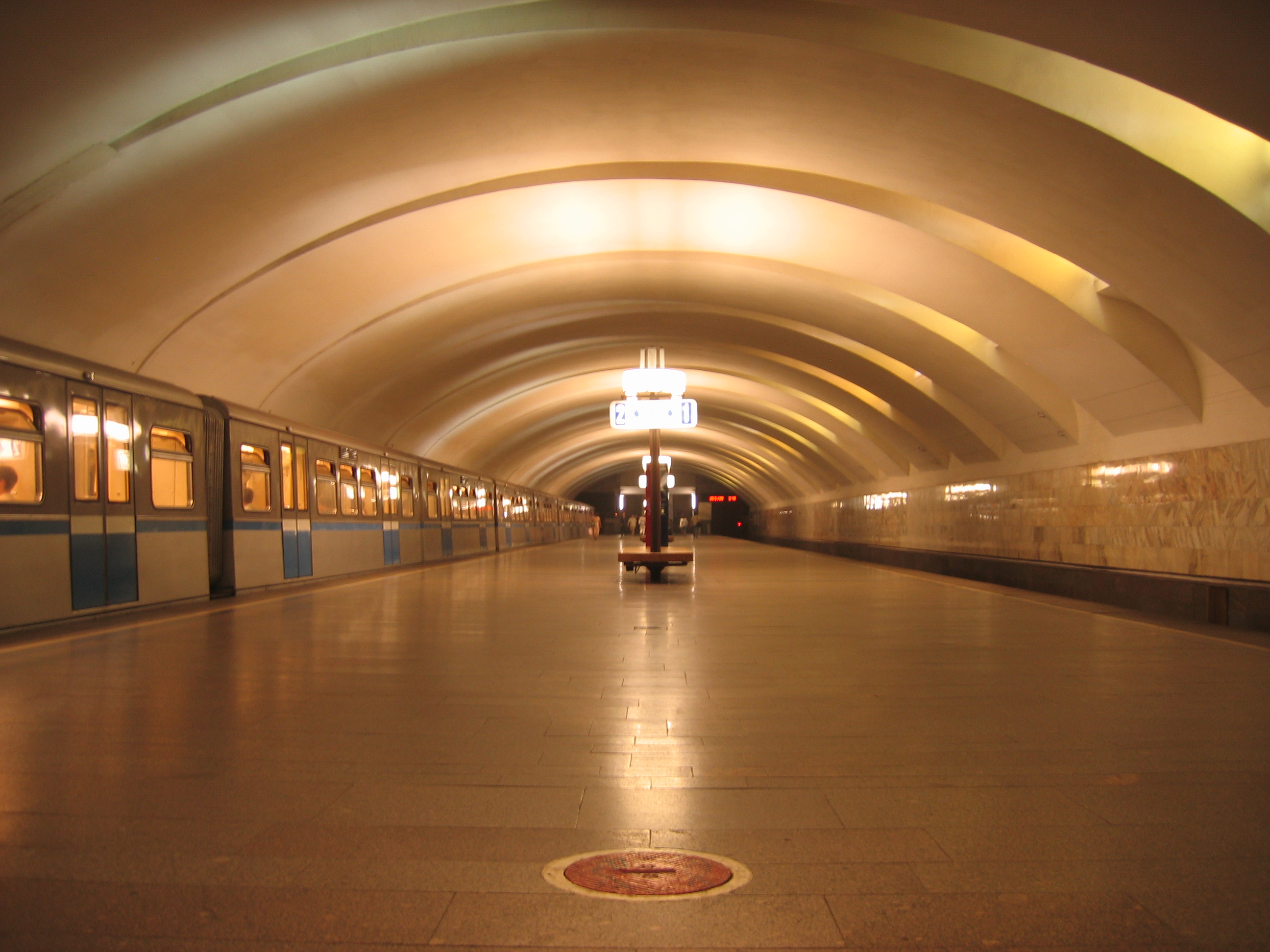 Station Krylatskoe of Moscow Metro